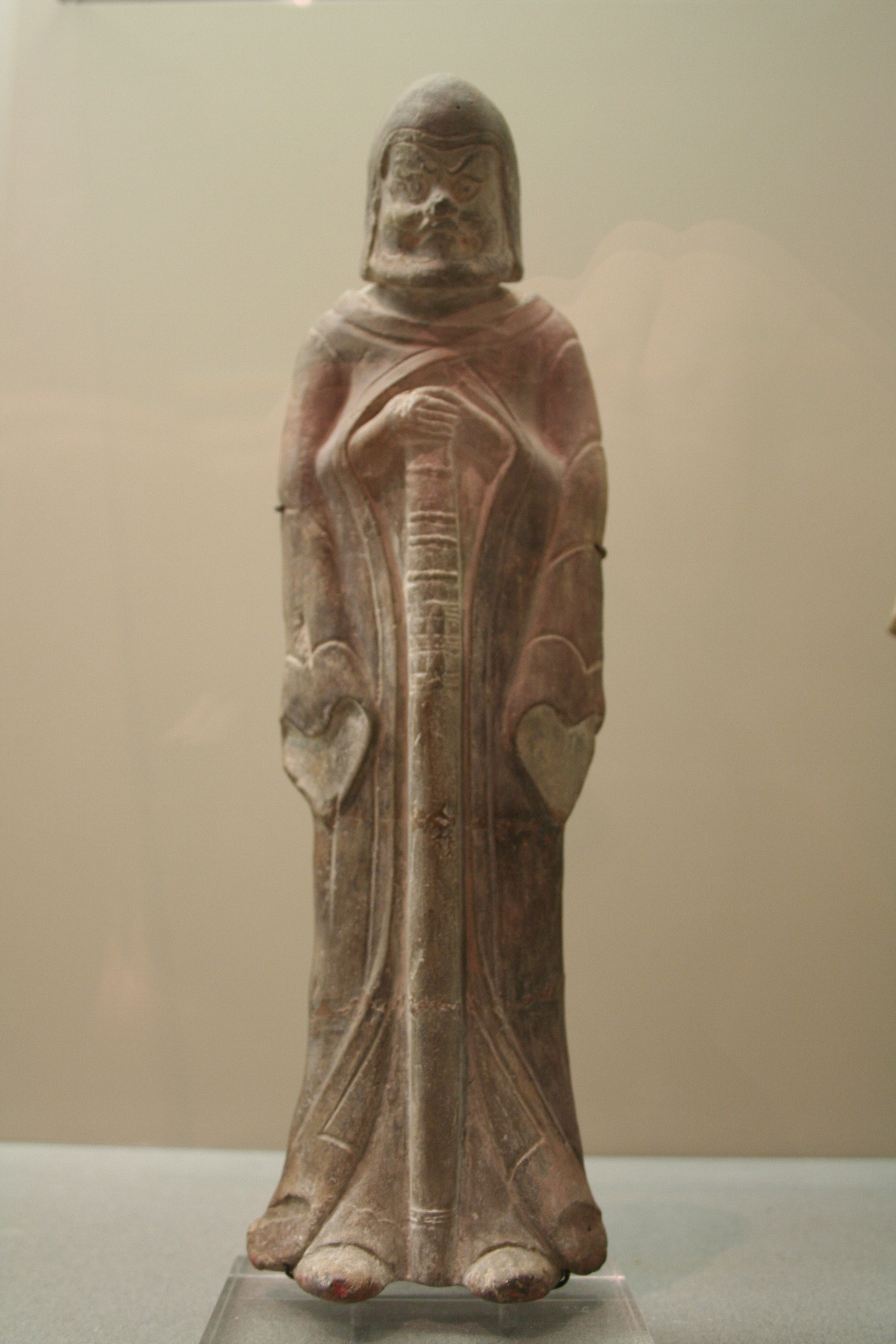 Warrior (Wushi yong). Glazed Terra Cotta. Sui Dynasty (581 – 618). Cernuschi Museum, Paris, France.